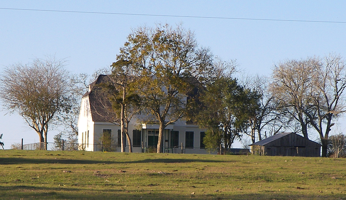 The Witte-Schmid House, Austin County, Texas, United States. The building was listed on the National Register of Historic Places on December 8, 1997.